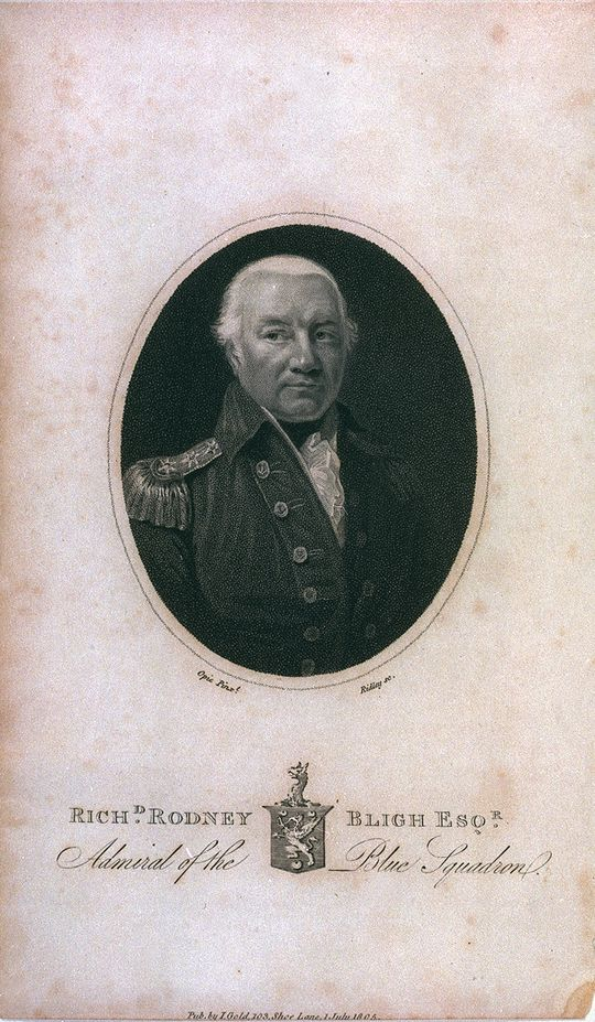 Richd Rodney Bligh Esqr. Admiral of the Blue Squadron